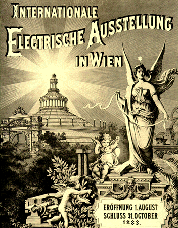 Poster International Electrical Exhibition Vienna, 1883